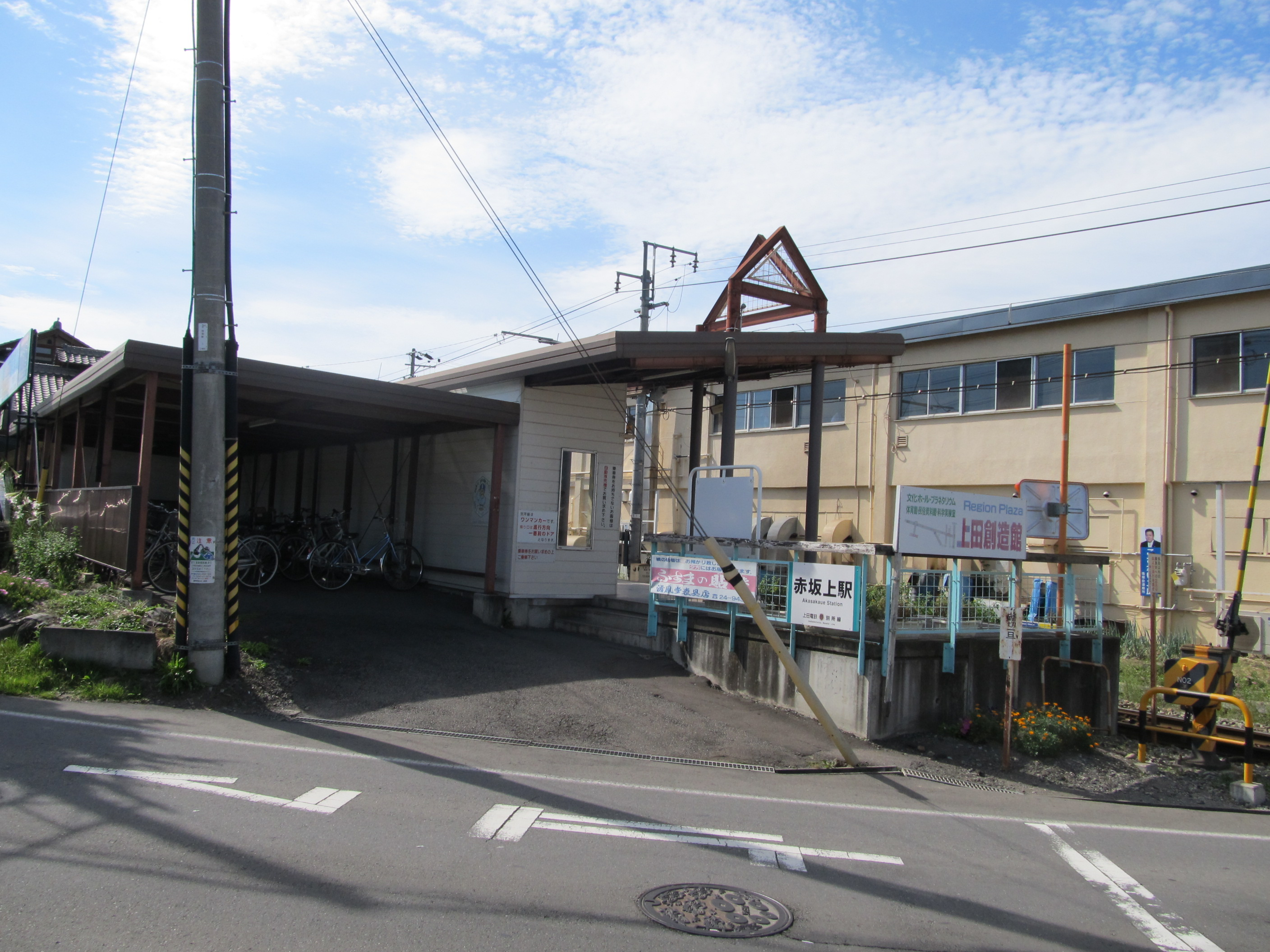 Ueda Electric Railway Bessho Line Akasakaue Station Gate